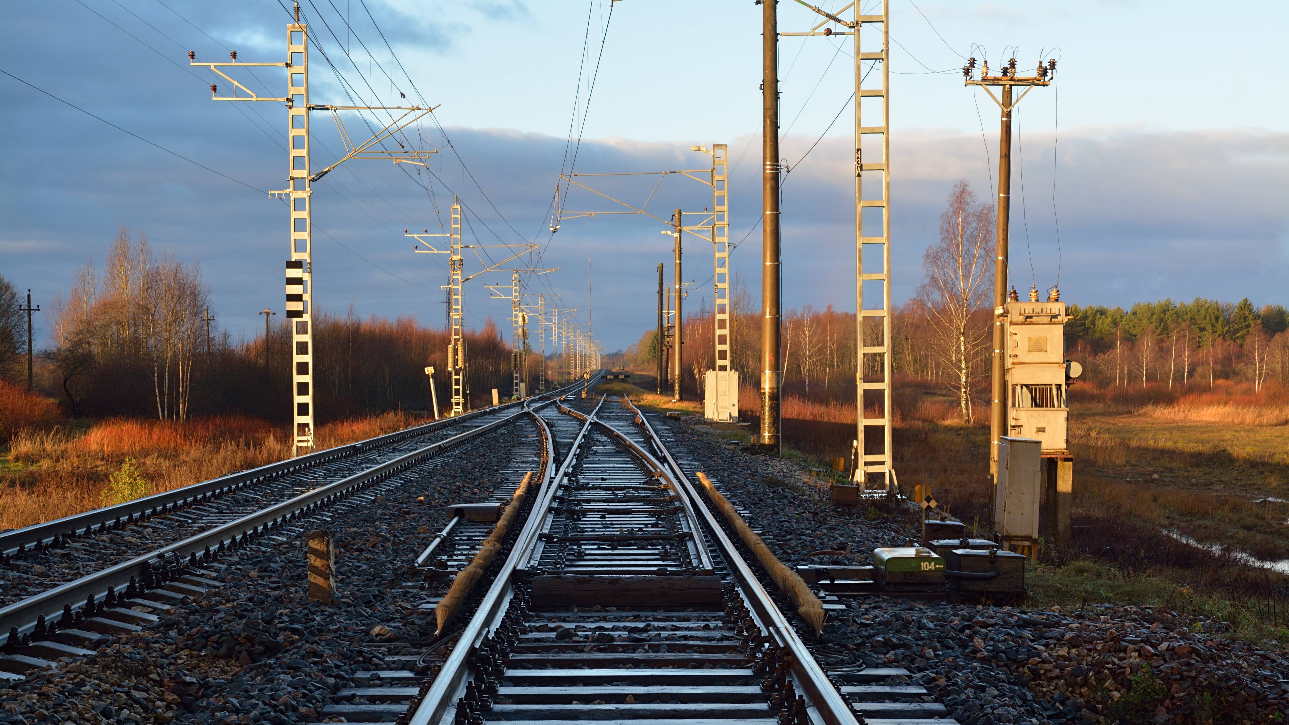 Railway crossover with pair of switches 1/18. Valingu, Estonia (Note: The photographer who created this image is a railway engineer who took it in the course of his job duties. Unless you are able to arrange safe circumstances to do so, do not take pictures while standing on active railroad tracks).